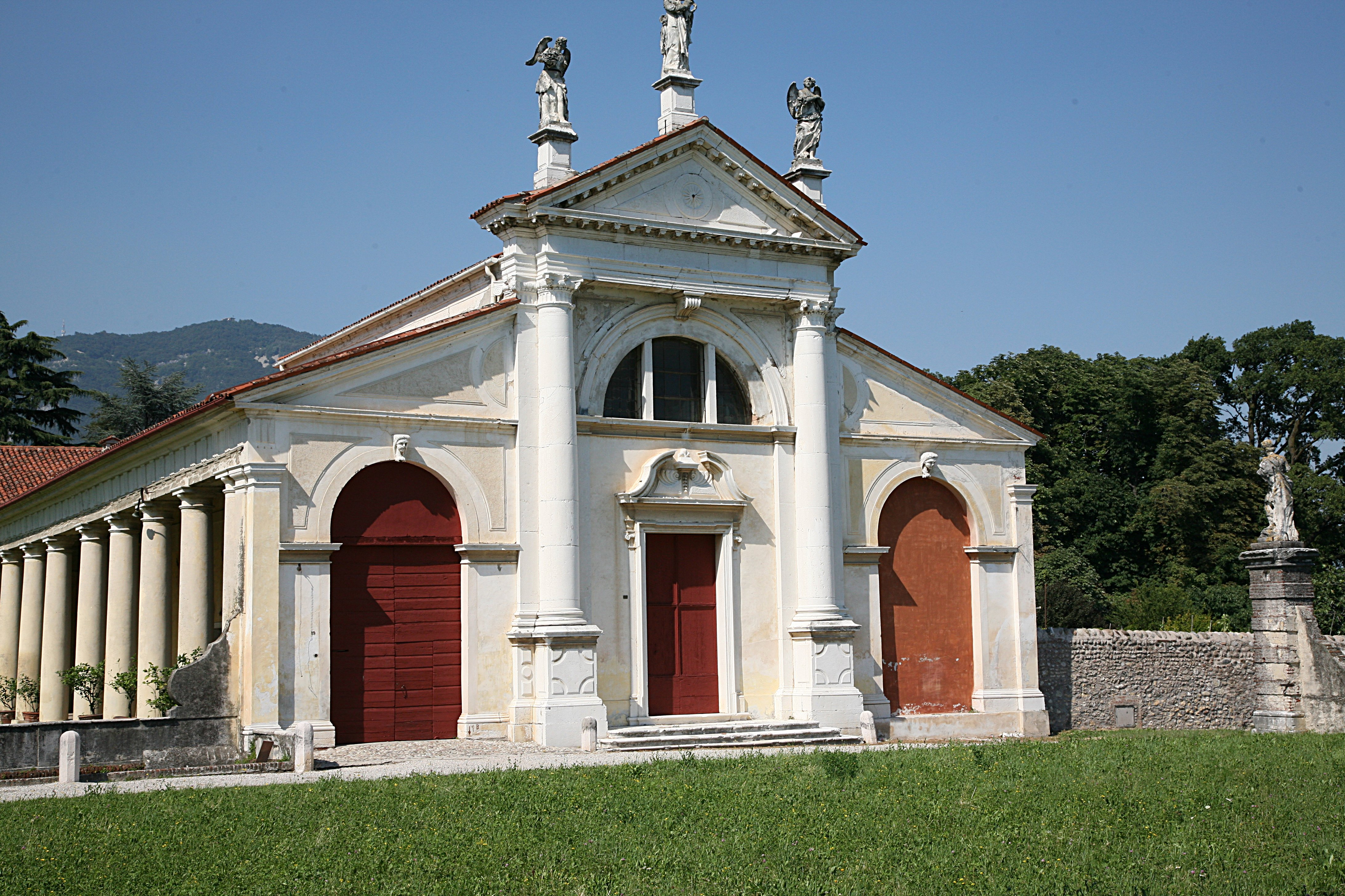 A Villa in Bassano del Grappa. Originally by Andrea Palladio. Brarchesse by him. Central house by B. Longhena